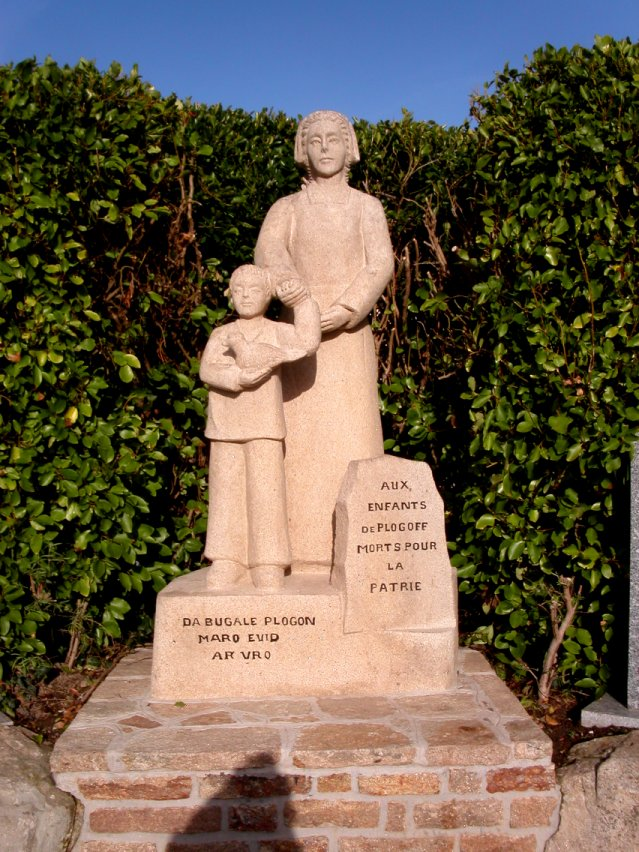 One of the only non war "monuments to the dead"